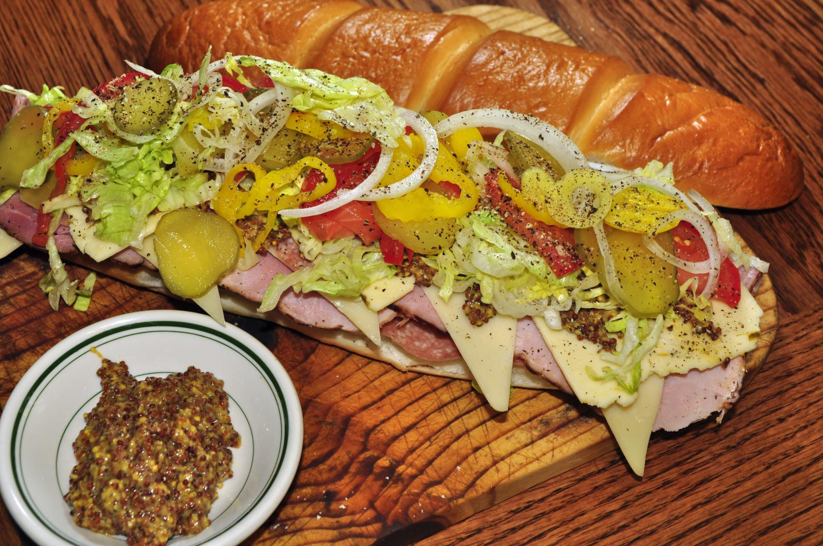 Submarine sandwich with toppings and dijon mustard